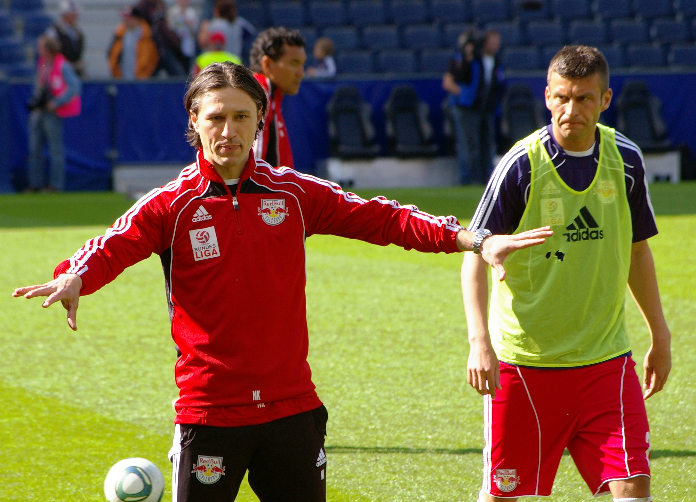 assistant coach Niko Kovač and defender Milan Dudić at the FC Red Bull Salzburg training session